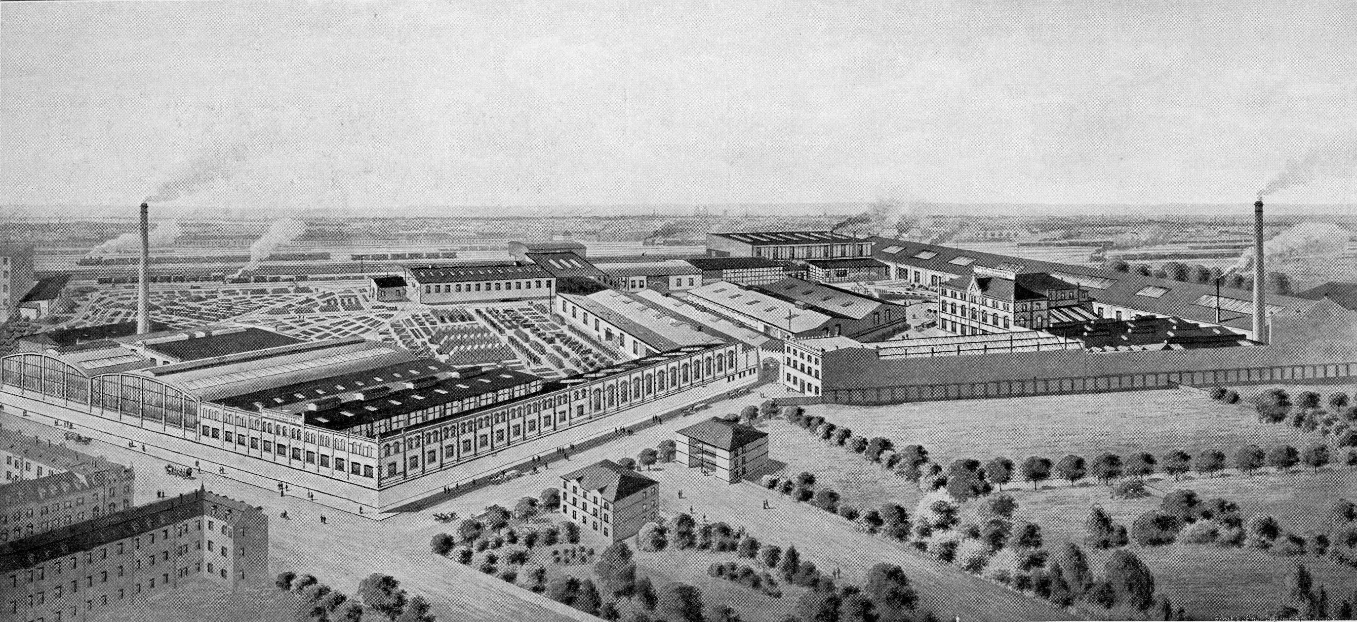 Bochum factory